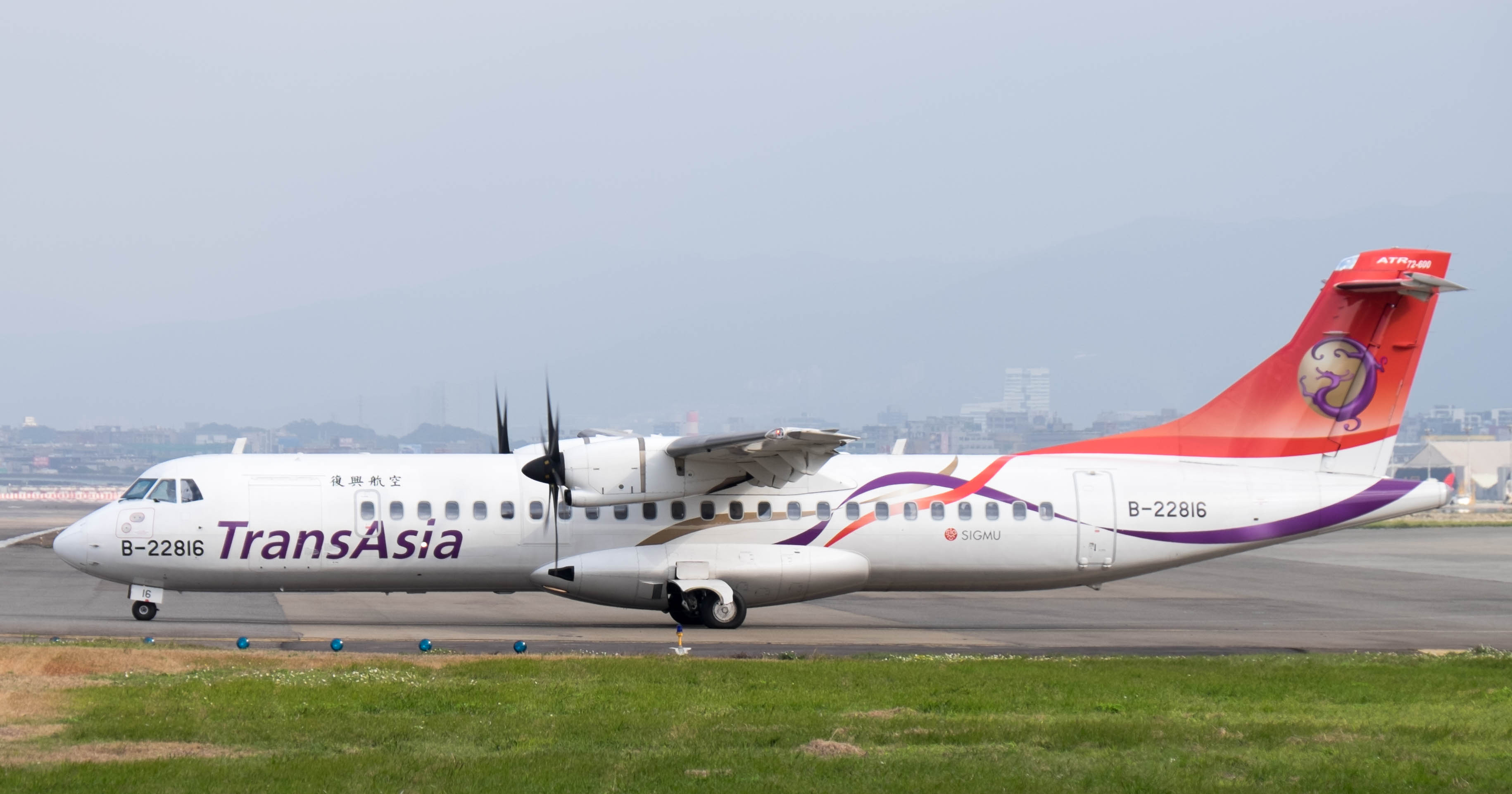 TransAsia Airways ATR 72-212A B-22816 Departing from Taipei Songshan Airport, January 2015